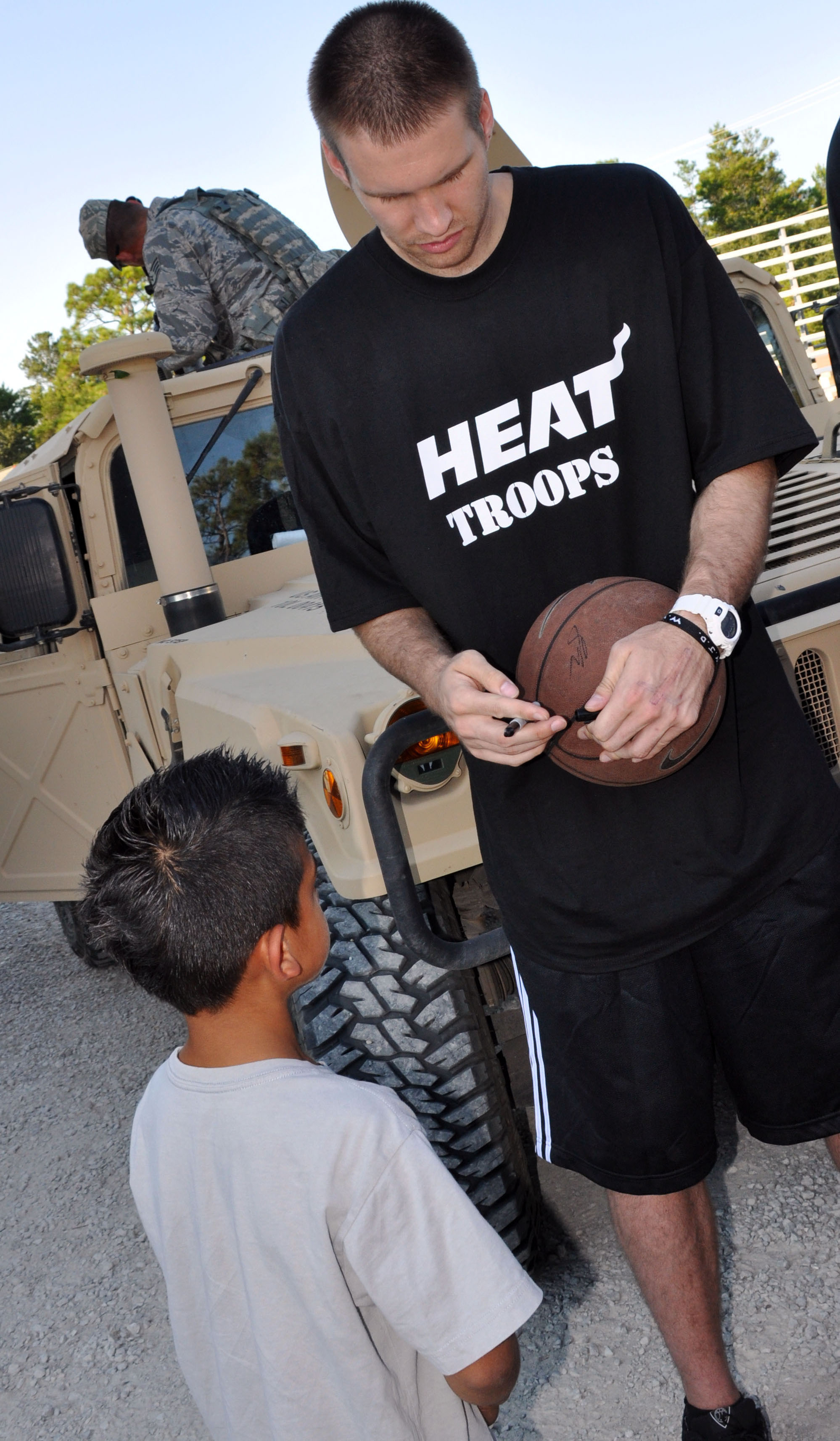 The Miami Heat's Shavlik Randolph signs a basketball for a young fan after Airmen from the 96th Ground Combat Training Squadron conducted an urban warfare scenario Sept 30 here. (U.S. Air Force photo/Staff Sgt. Stacia Zachary)